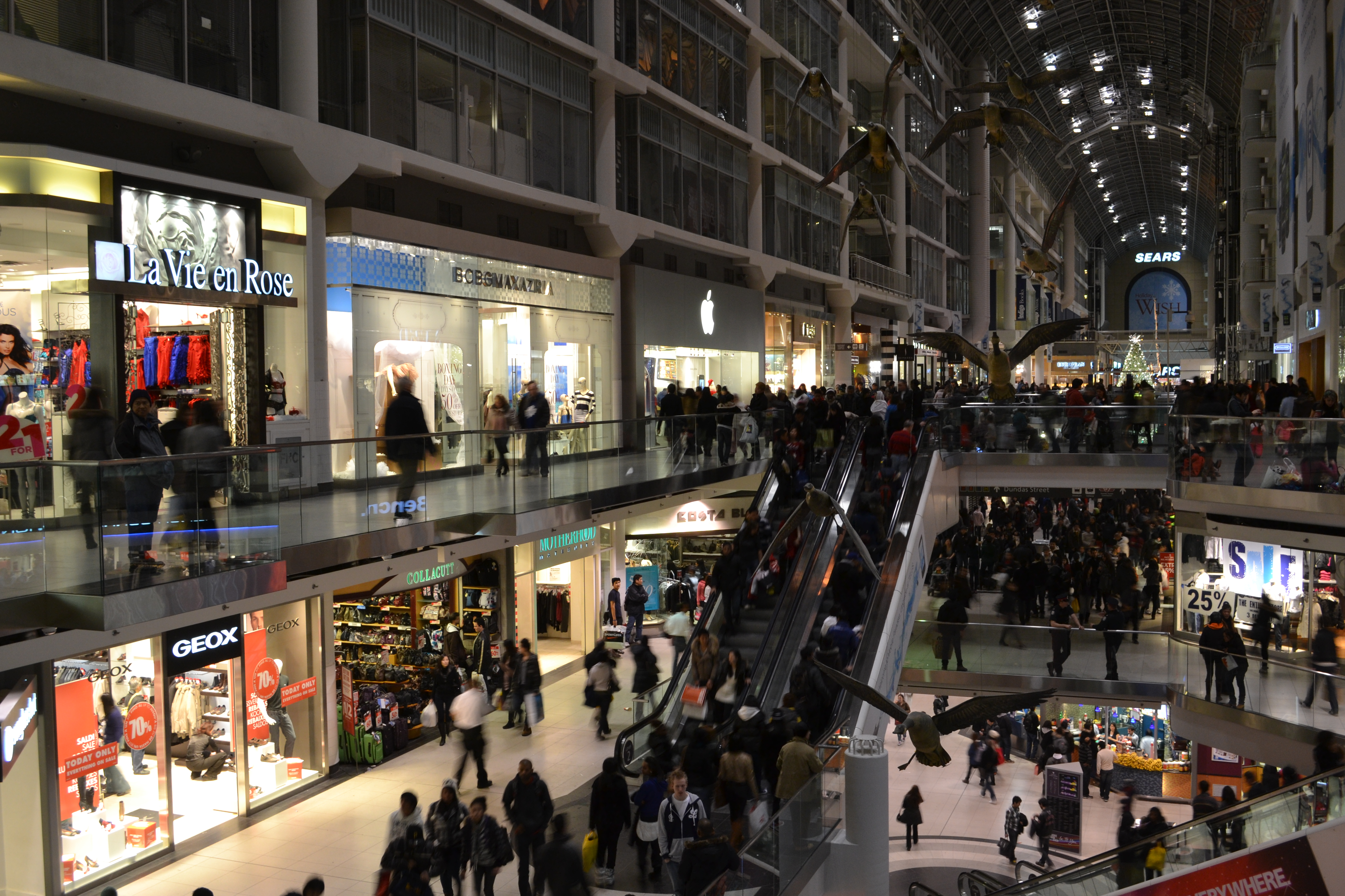 Eaton Centre Boxing Day 2010